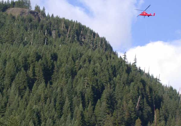 Helicopter carrying timber along the Breitenbush River in the Willamette National Forest (taken Nov. 13, 2004)